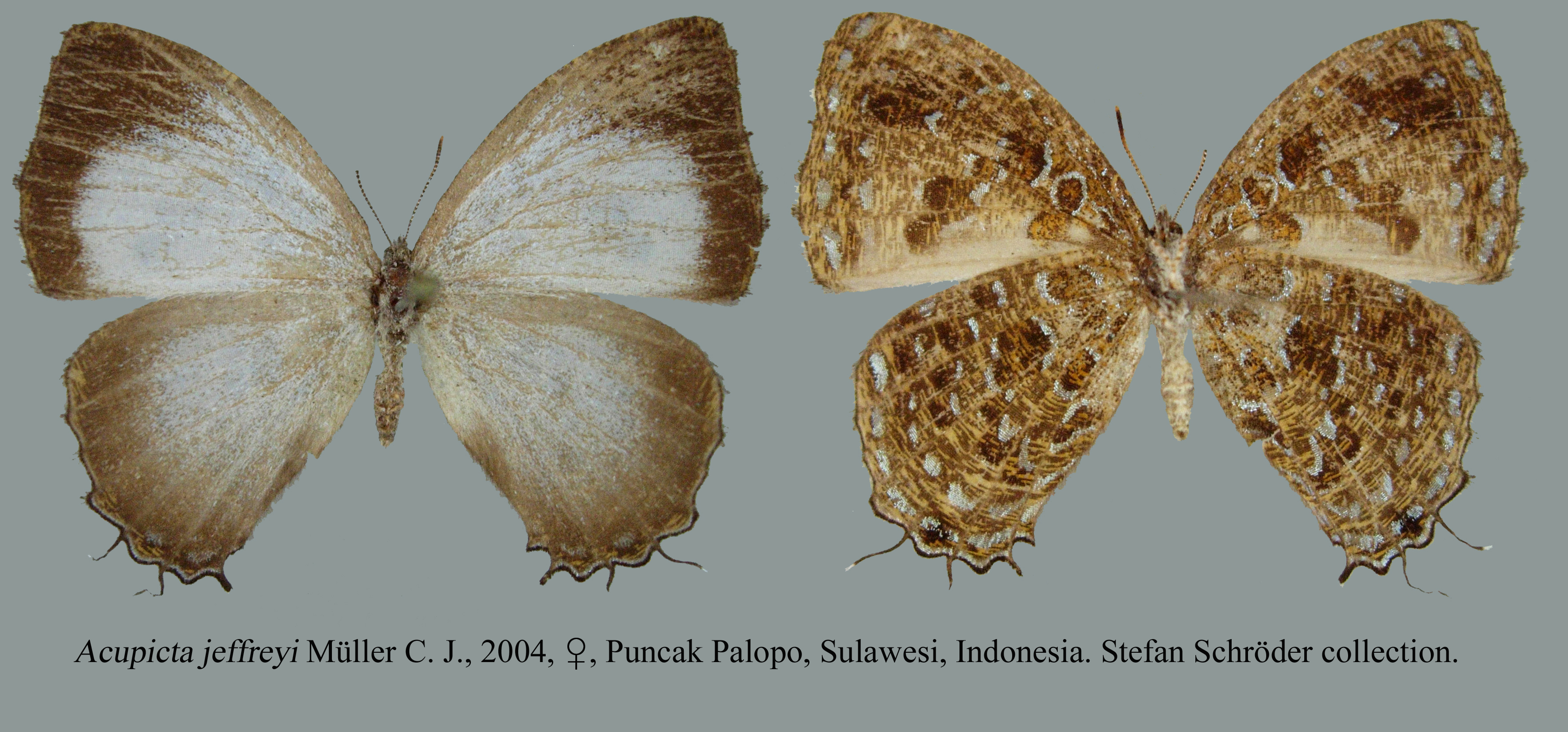 Acupicta jeffreyi, female, Sulawesi, Palopo, Alan Cassidy photo.